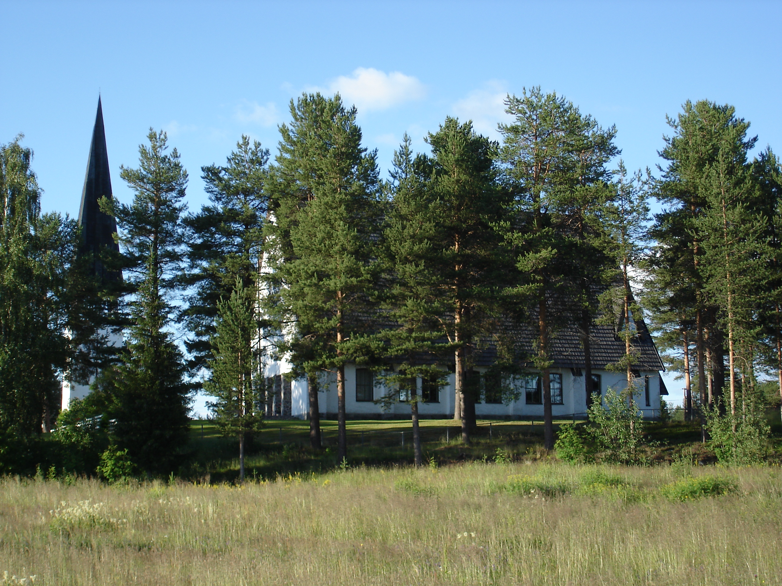 Pello Church in Pello, Finland